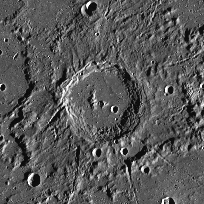 Mansur crater, on Mercury. MESSENGER Wide Angle Camera mosaic. Image is approximately 238 km wide.